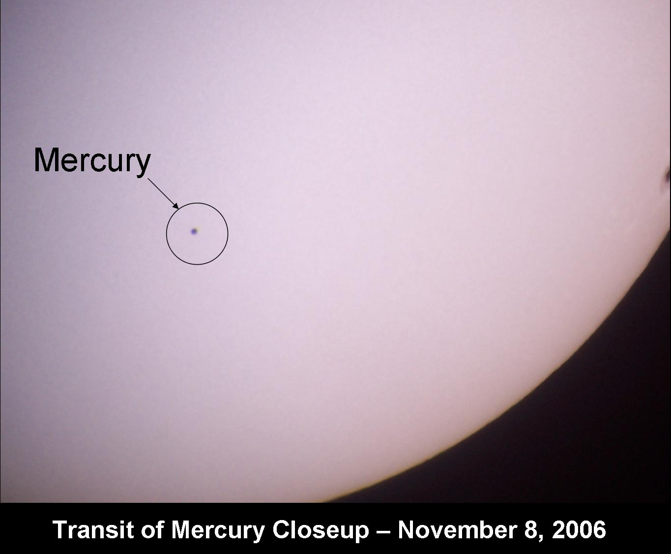 Author: Eric S. Kounce of the West Texas Astronomers ( photographed 11-8-06